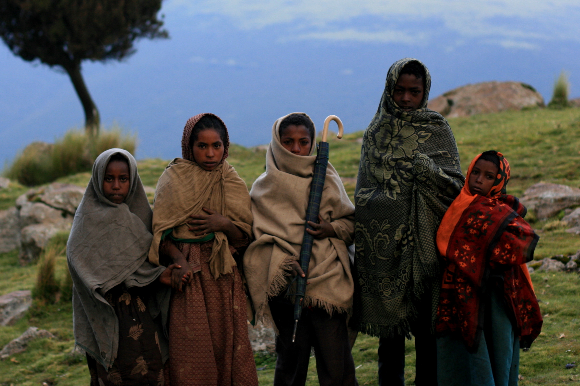 It might look as a family, but it isn't. These kids and teens are living on the Ethiopian highlands, in a village which is above 3600m of altitude. They live from agriculture and cattle, as do their parents and families.